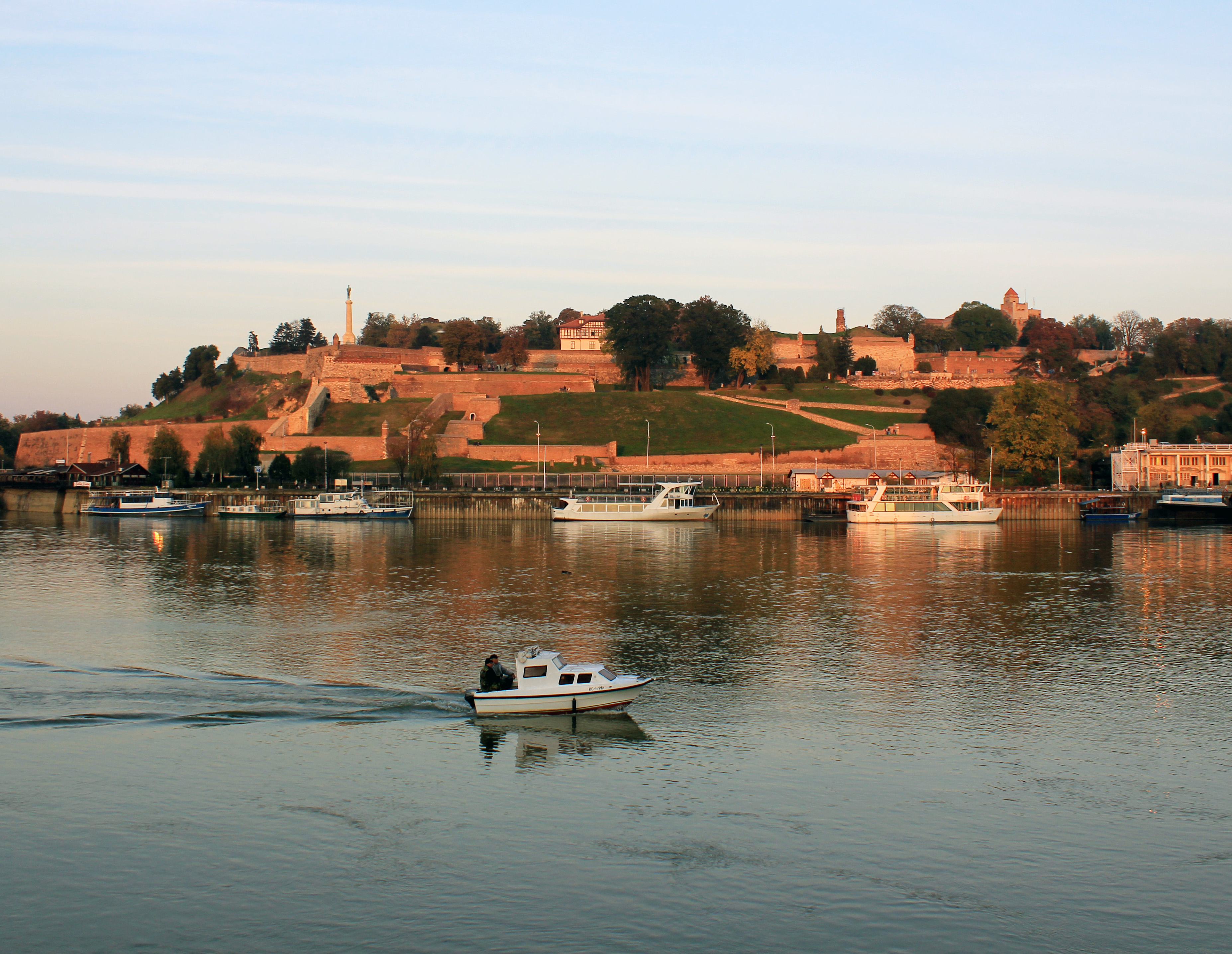 Belgrade. View to Kalemegdan fortress in evening sunset light